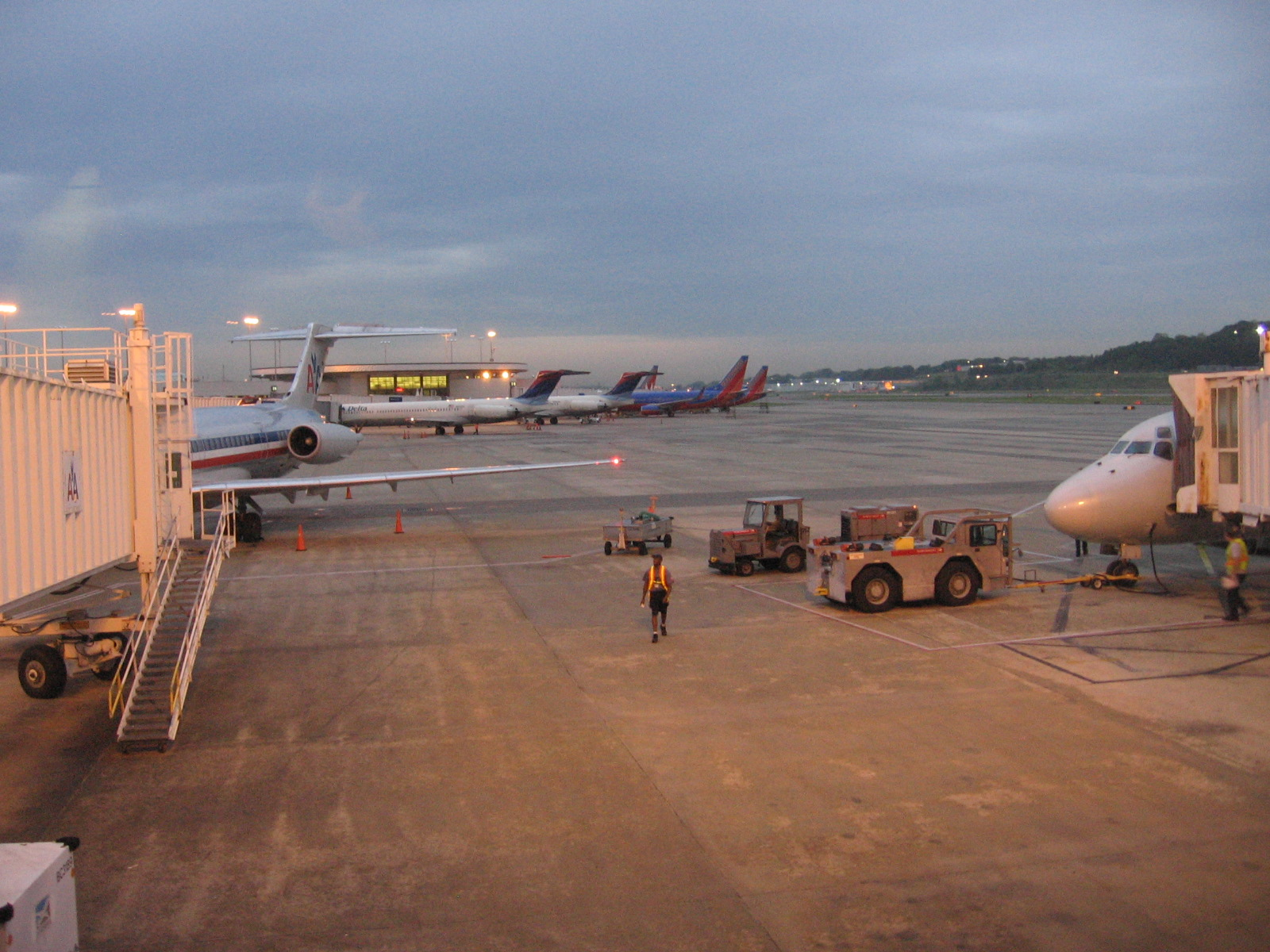 Seven narrow body mainline airplanes start the day at Birmingham International Airport. From left to right as viewed from American Airlines Gate B1: American Airlines MD-80 (Dallas-Fort Worth), two Delta Air Lines MD-88s (Atlanta), three Southwest Airlines Boeing 737s, and a Northwest Airlines DC-9 (Detroit) (Northwest moved to Concourse C in May 2009 and merged with Delta).